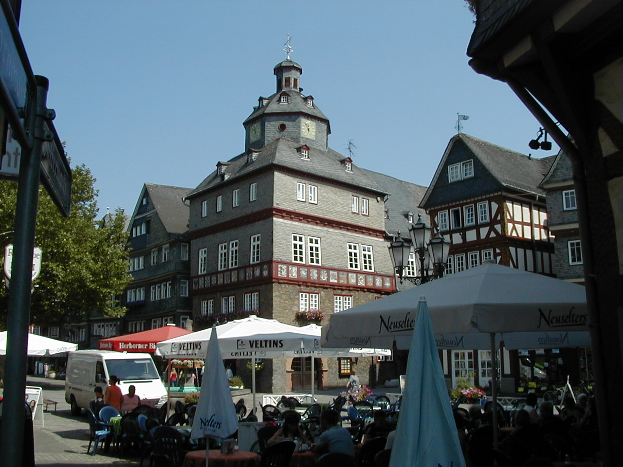 I (Seth Schoen) took this photograph in Herborn, Germany, in August 2003. I give permission for this image to be used under the GNU Free Documentation license.